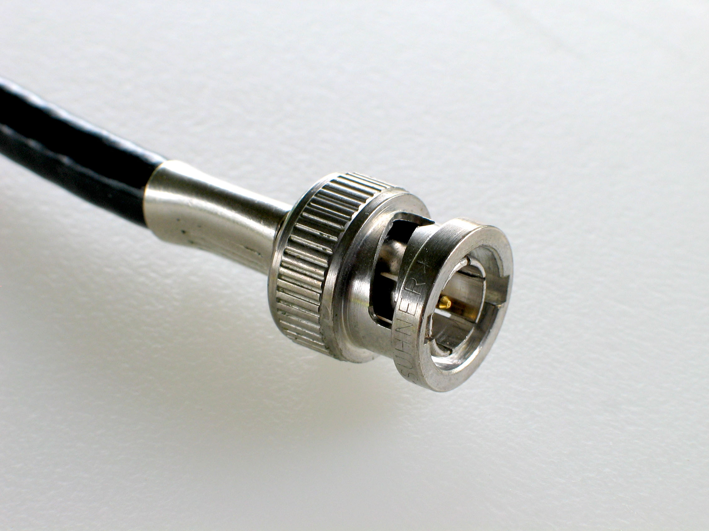 BNC connector, photo taken in Sweden